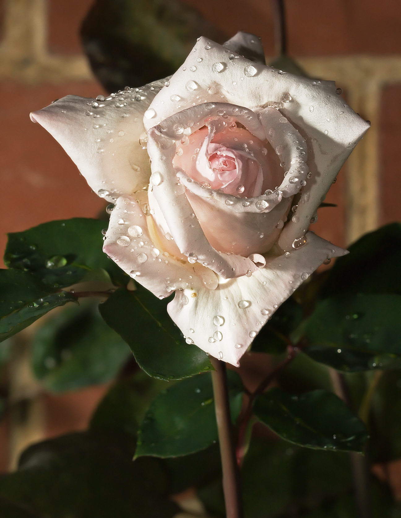 A "Memorium" Rose in Tasmania, Australia Parentage: Seed: Blanche Mallerin × Peace Pollen: Peace × Frau Karl Druschki Camera data Camera Canon EOS 400D Lens Canon EF 70-200mm f4L w/ 12mm extension tube Flash Umbrella right, fill left Focal length 100 mm Aperture f/11 Exposure time 1/200 s Sensivity ISO 100